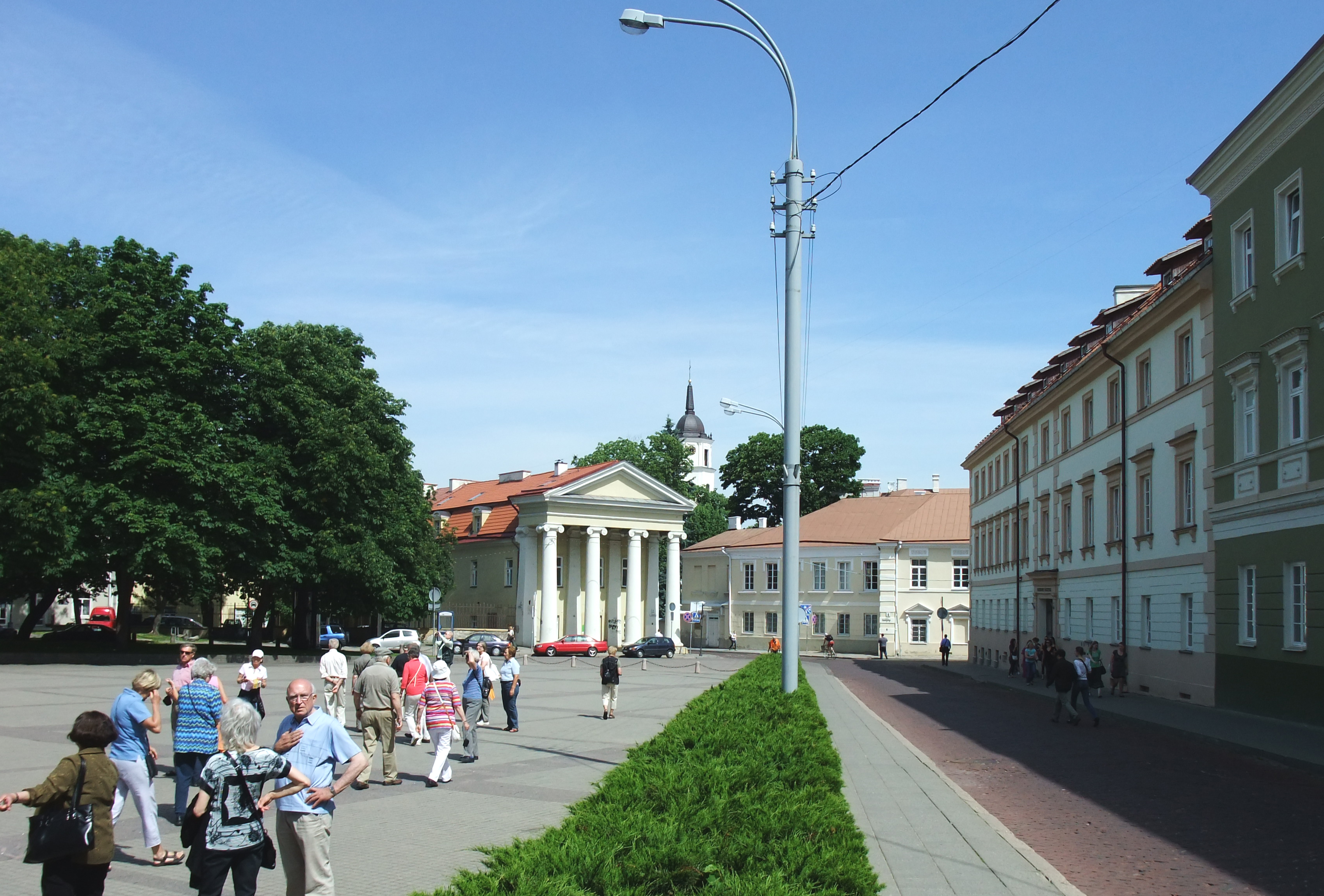 Downtown Vilnius, Lithuania